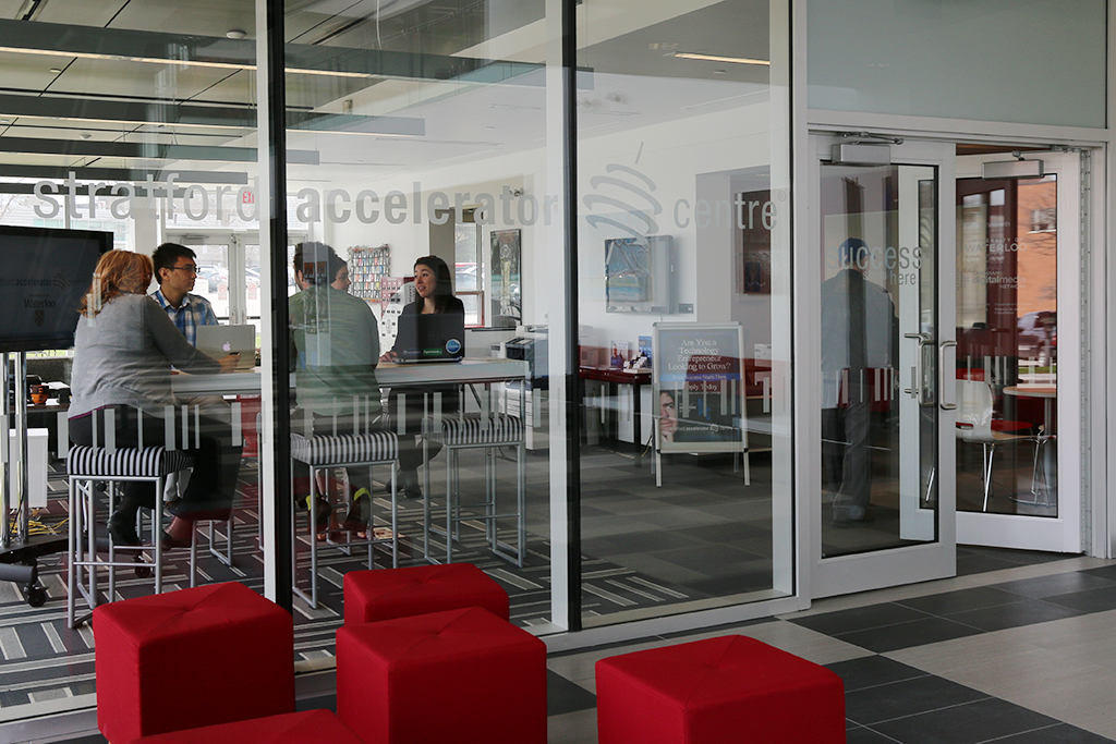 Stratford Accelerator Centre